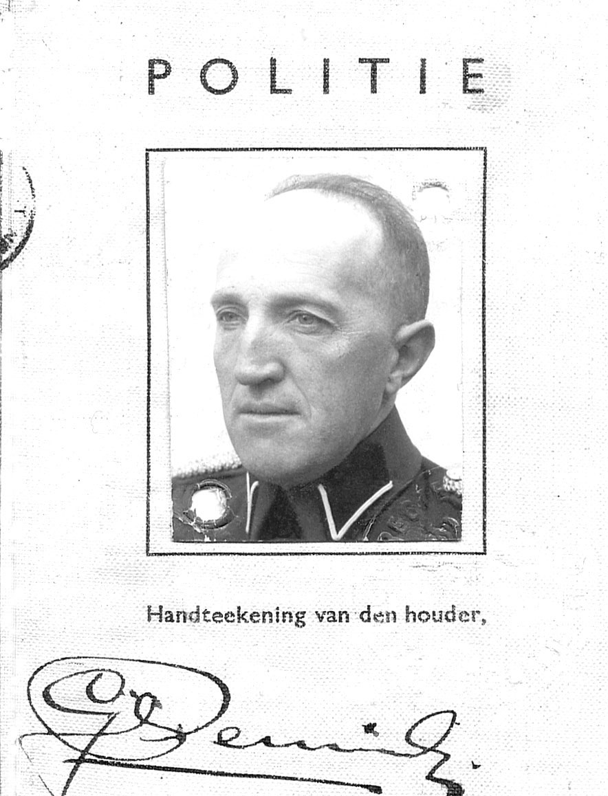 Legitimatiebewijs Gerard Beuvink